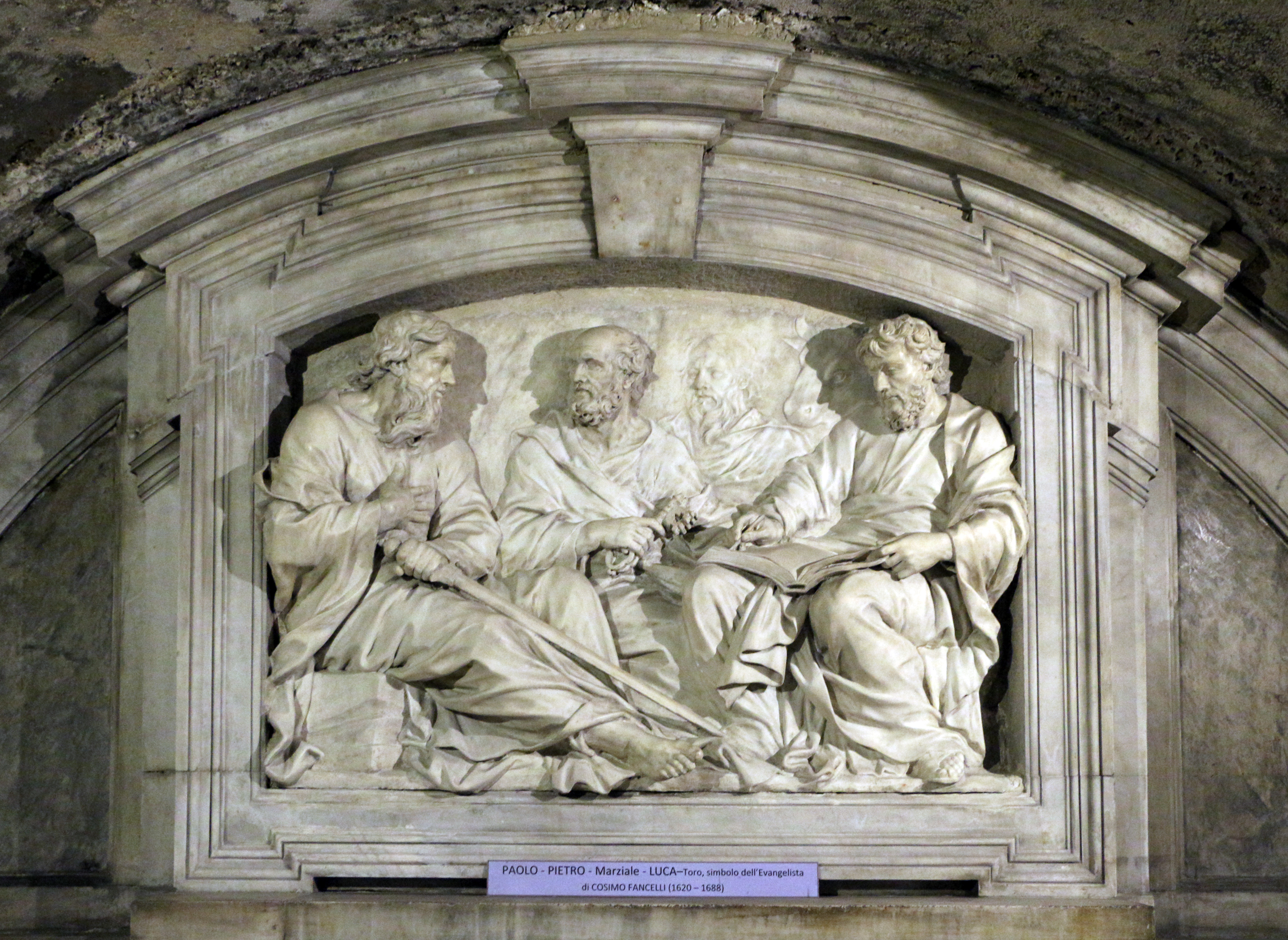 Santa Maria in Via Lata (Rome)